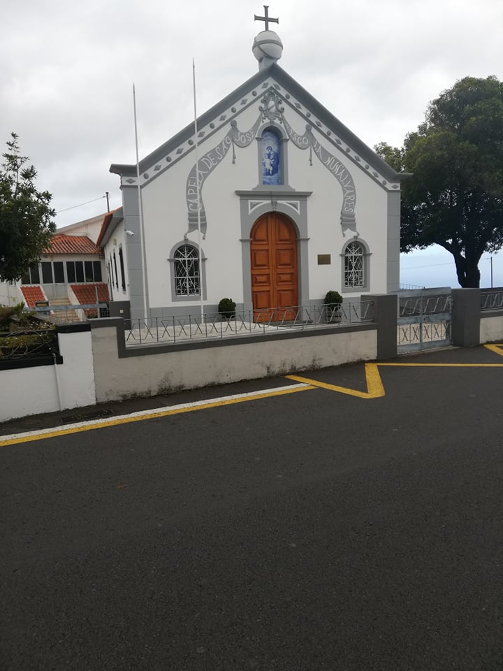 Chapel of Camacha